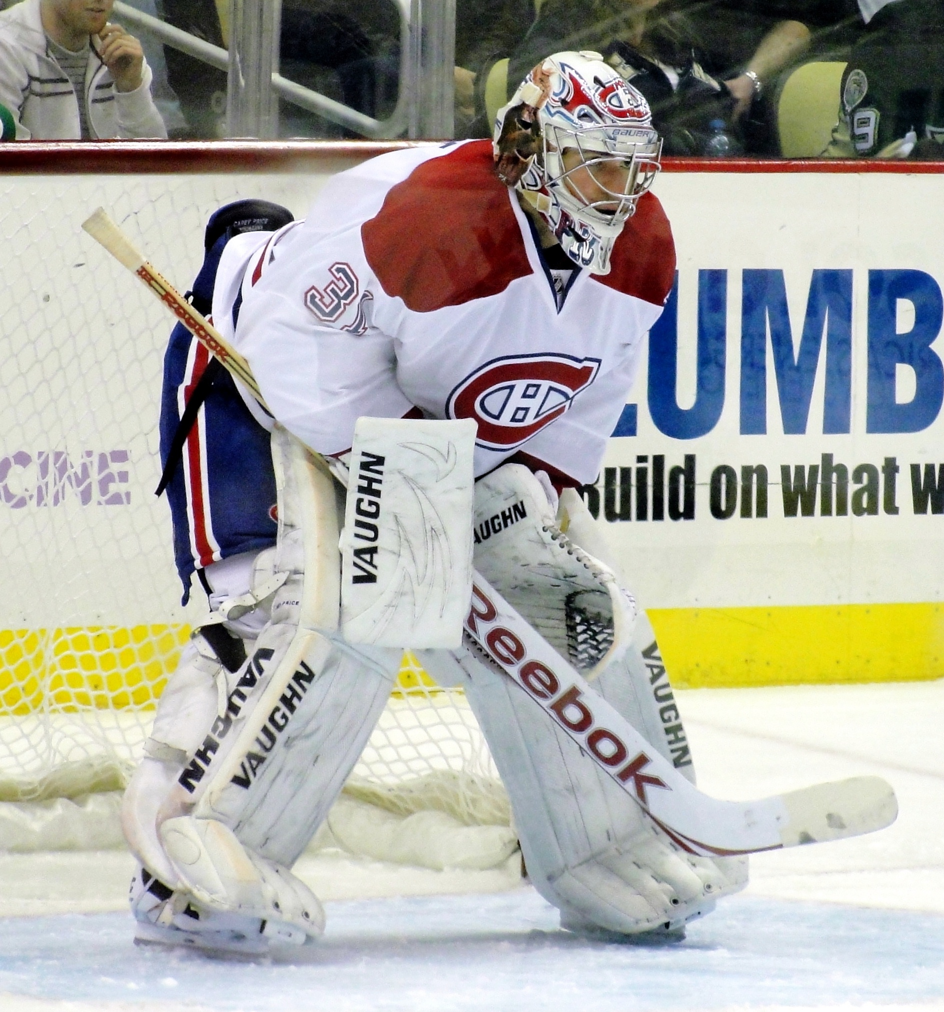 Carey Price picked up the shutout for the Montreal Canadiens against the Pittsburgh Penguins, March 12, 2011 at Consol Energy Center in Pittsburgh, PA.